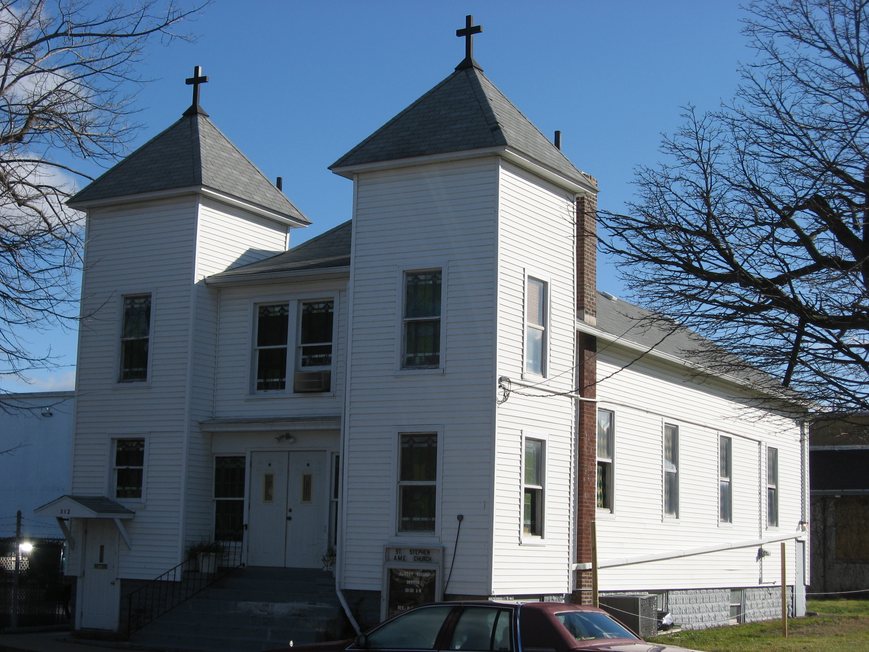 Front and southern side of St. Stephen's AME Church, located at 312 Neil Street in Sandusky, Ohio, United States. Built in 1879, it is listed on the National Register of Historic Places.